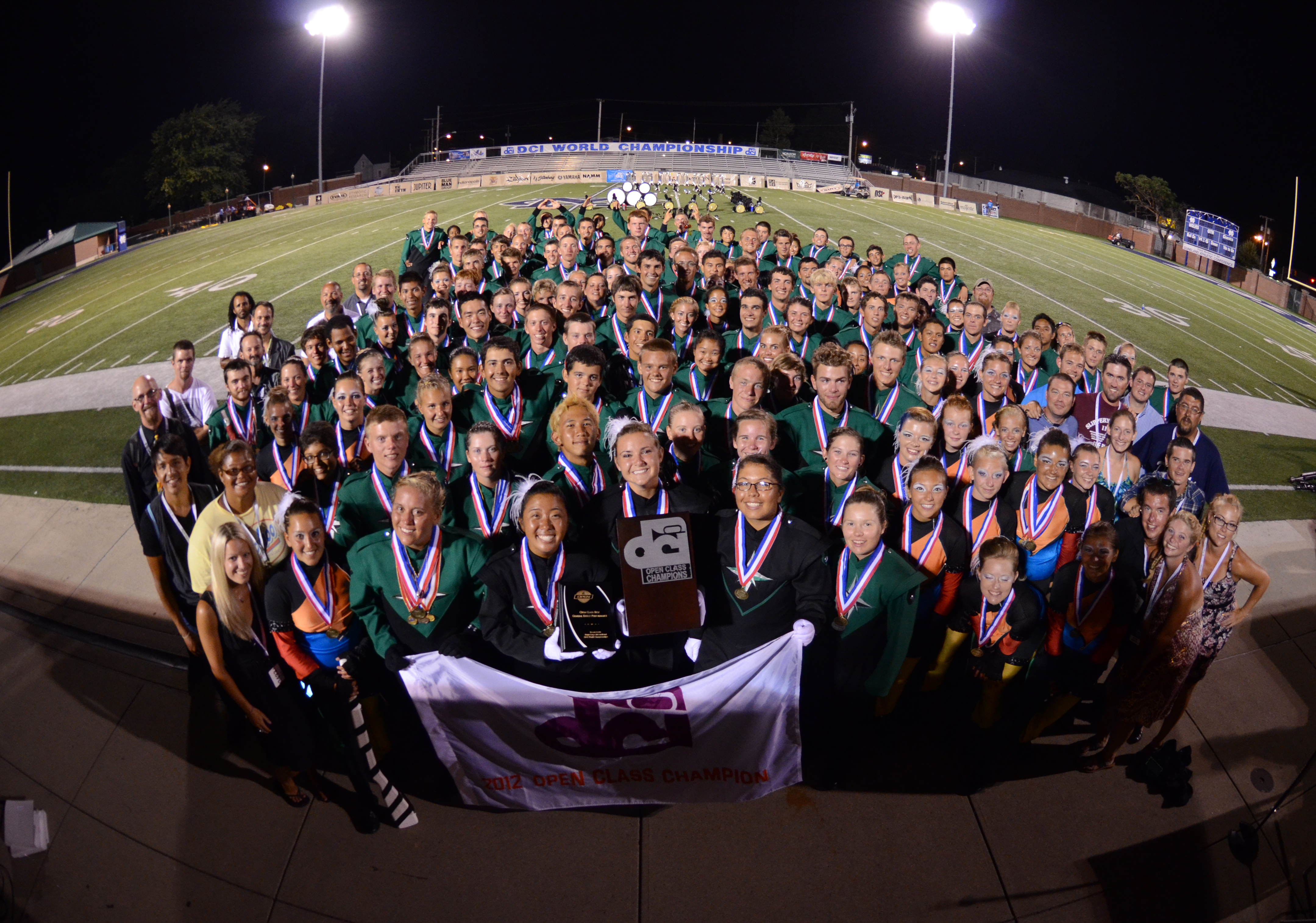 The 2012 Open Class Champion Oregon Crusaders